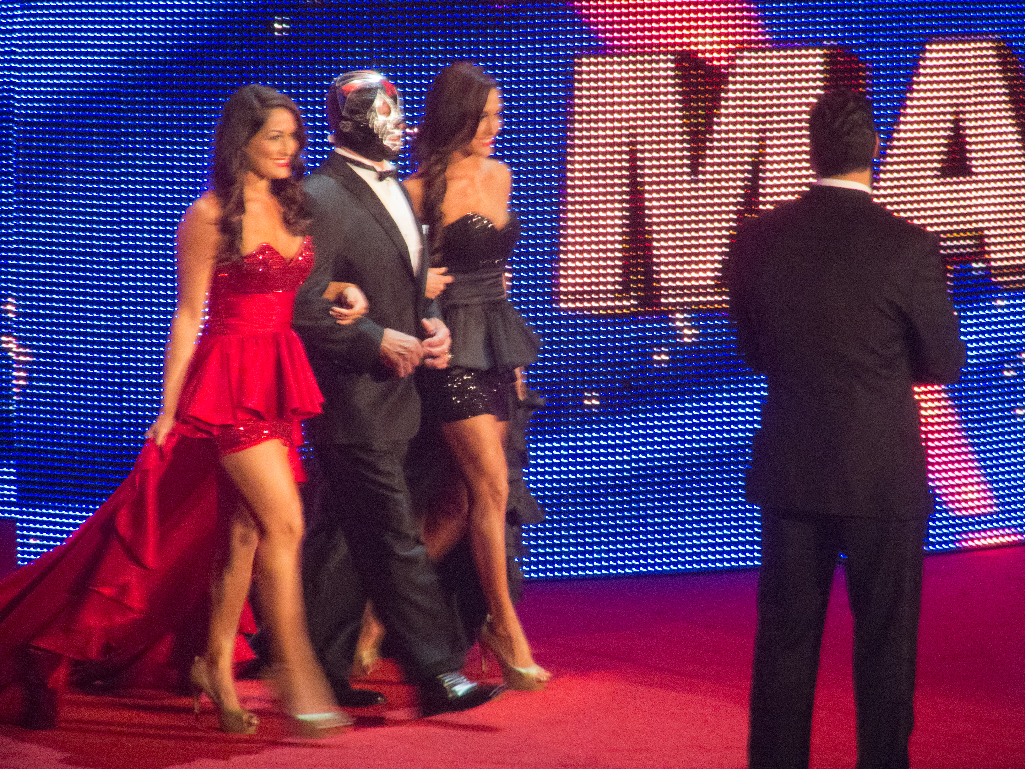 WWE Hall of Fame 2012 - Mil Mascaras